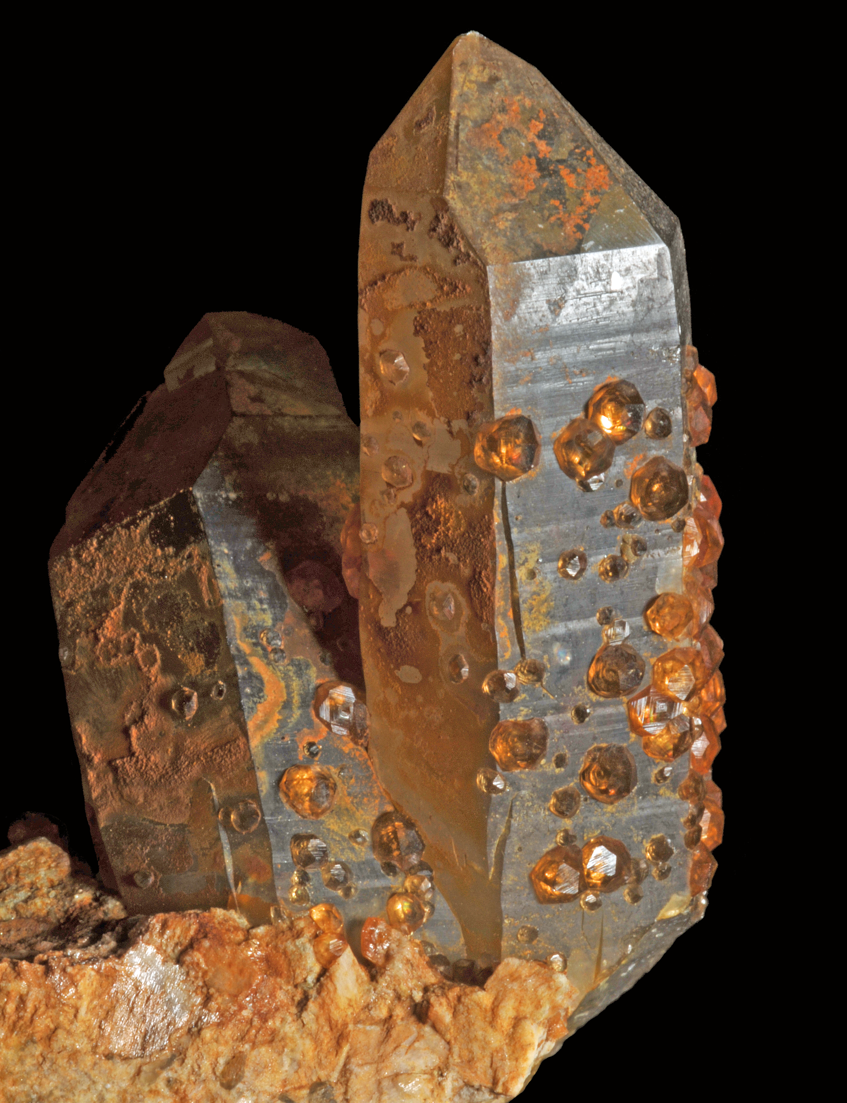 garnet var. spessartine, quartz var. smoky quartz : Wushan Spessartine Mine, Tongbei, Yunxiao Co., Zhangzhou Prefecture, Fujian Province, China